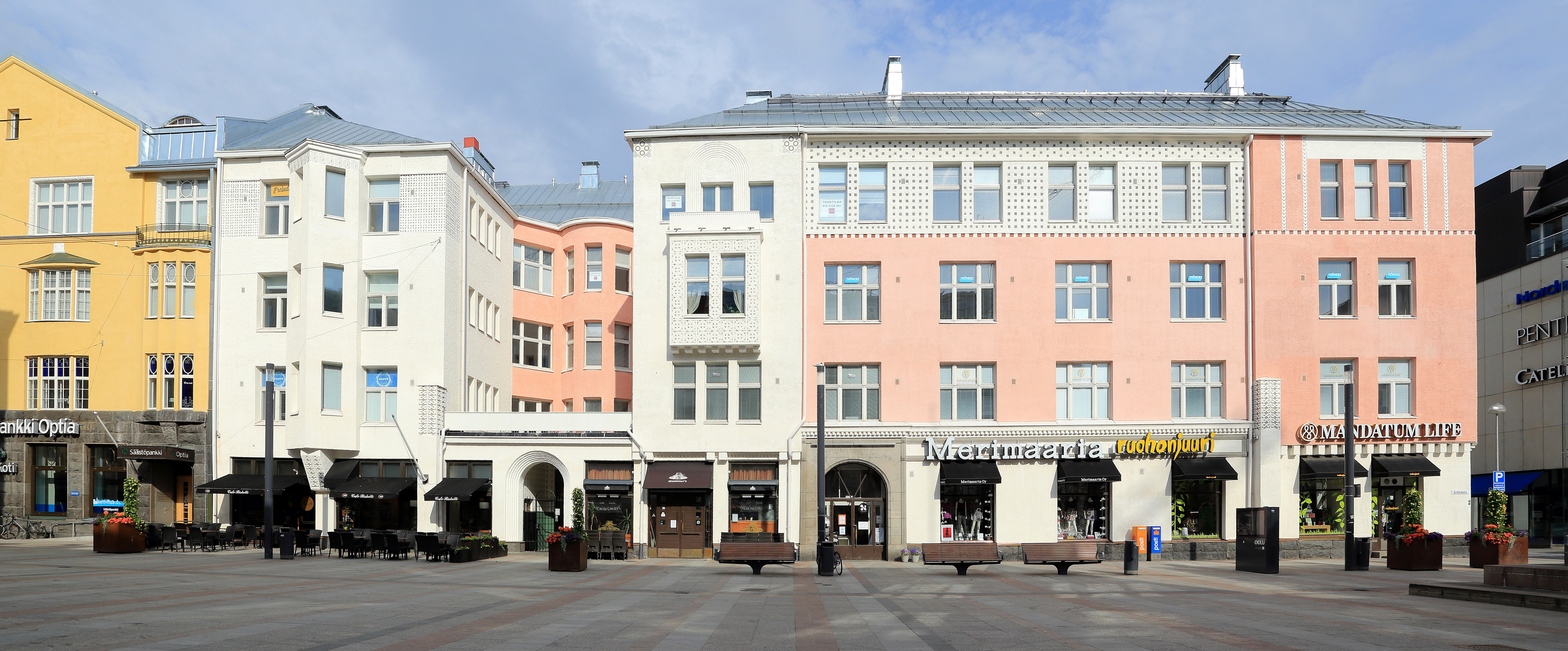 The Pallas building in Oulu, Finland.